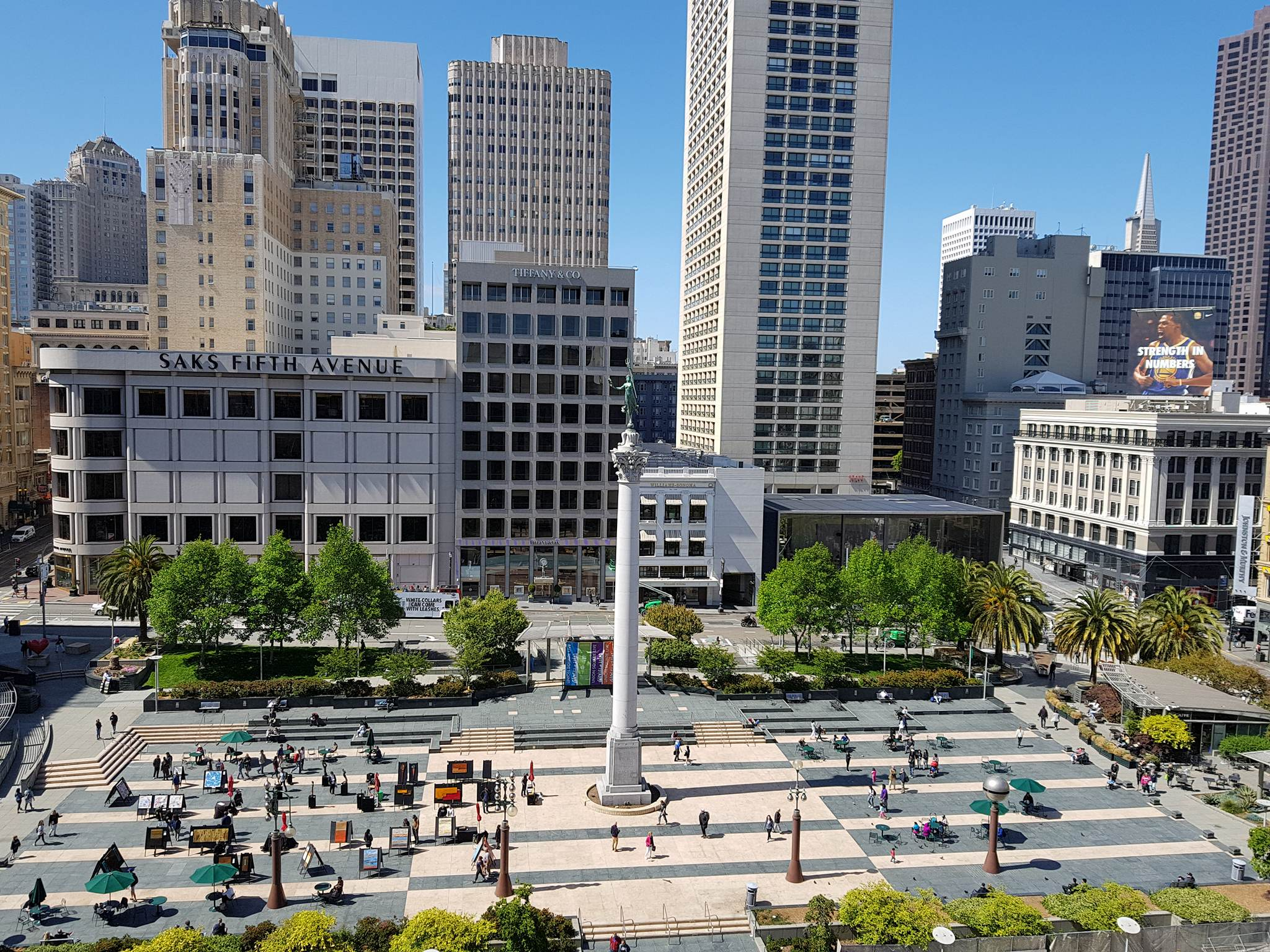 Union Square, SF, as seen from the Cheesecake Factory.